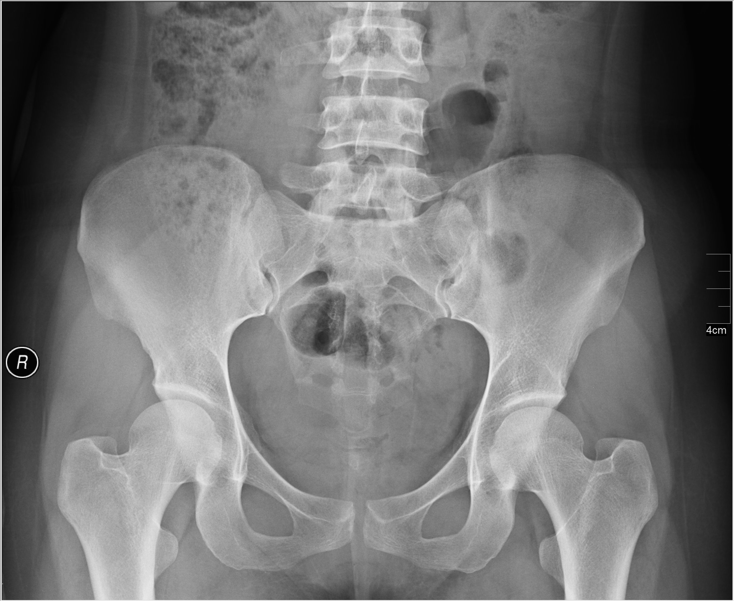 Medical X-rays.